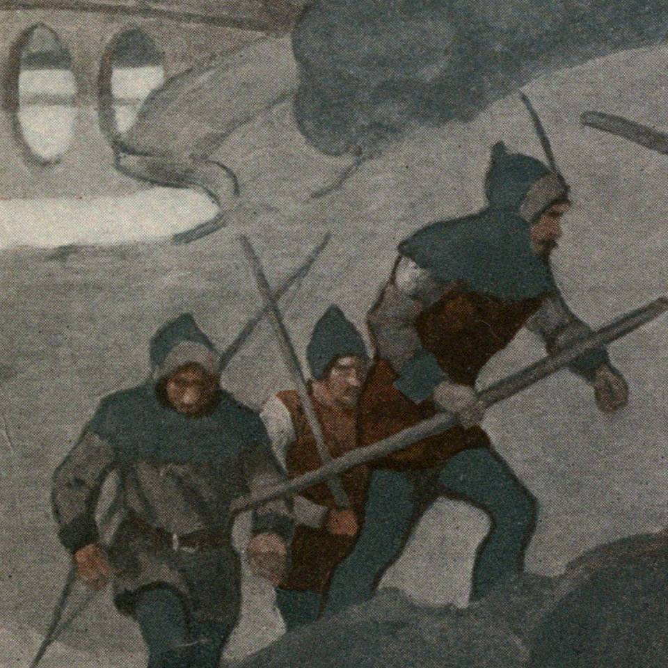 Detail from an illustration for the book Robin Hood (1917) by Paul Creswick, illustrated by N. C. Wyeth. The illustration appears in the book's endpaper and depicts Robin Hood and his Merry Men traveling outside of Nottingham.